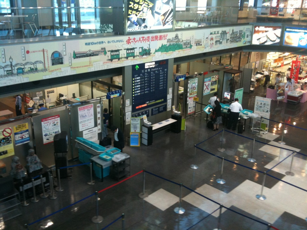 Matsuyama Airport, Departure loby